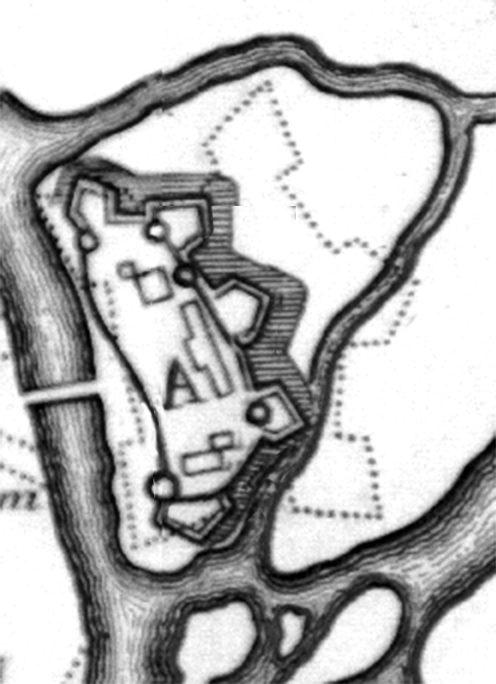 A fragment of the plan with the Brest Castle